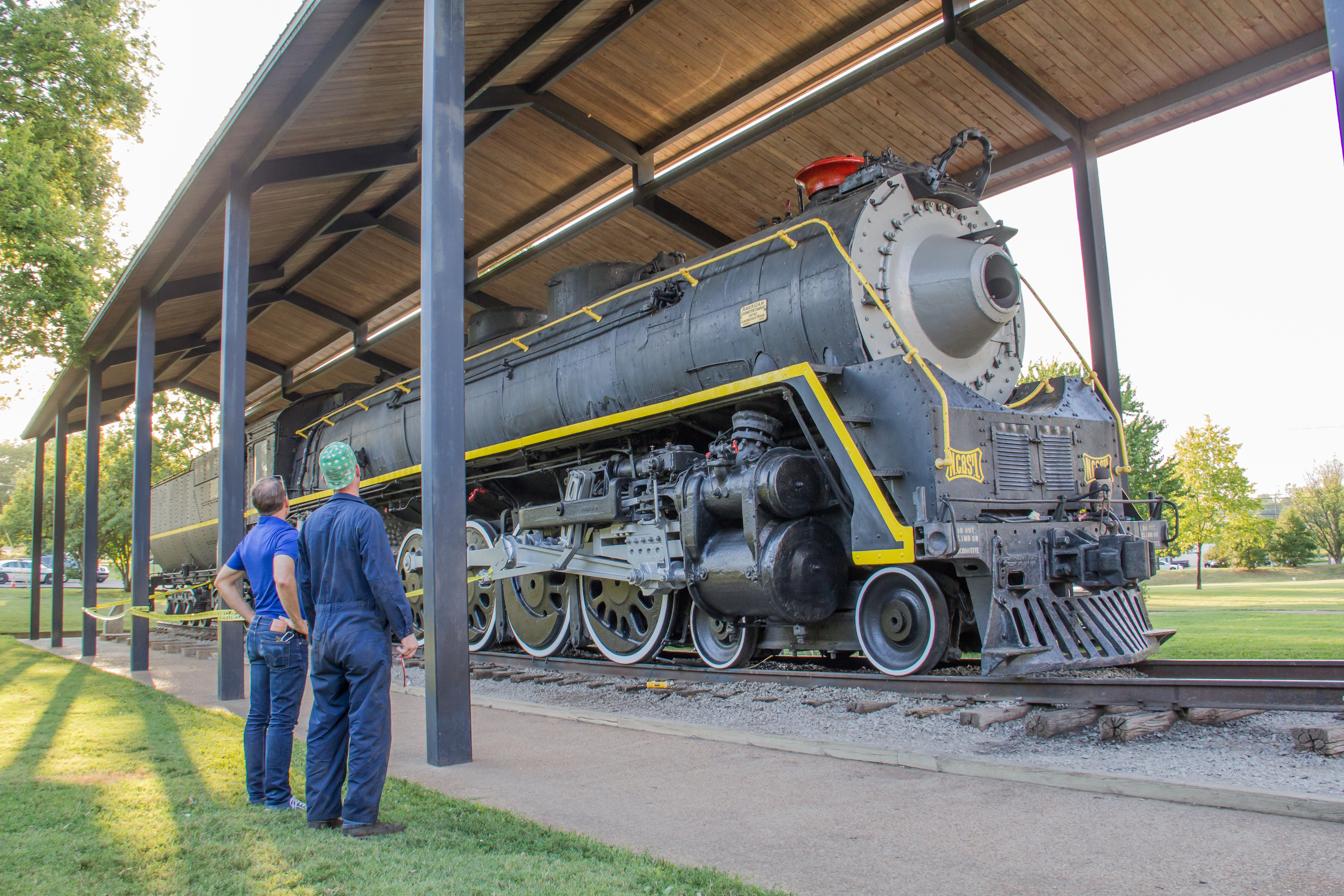 Locomotive 576 while being painted prior to the first Open House hosted by the Nashville Steam Preservation Society to promote and fundraise for the restoration of the locomotive to service.